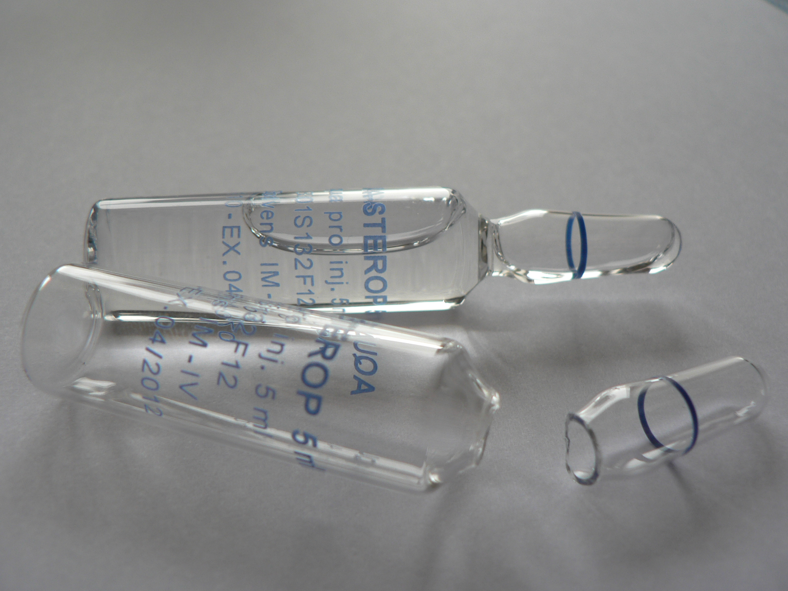 Sterile physiological solution for injection